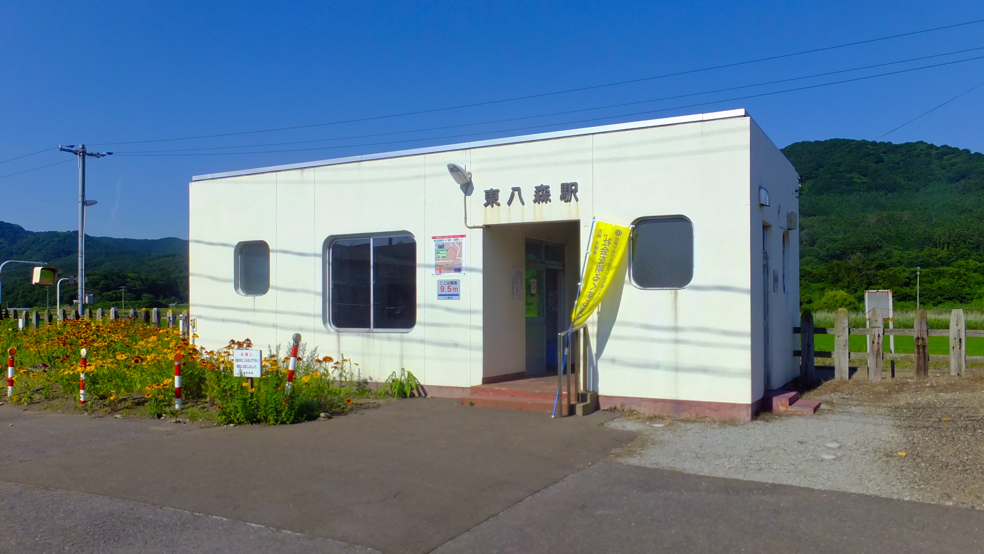 Higashi-Hachimori Station on the Gonō Line, in Happo Town, Akita, Japan